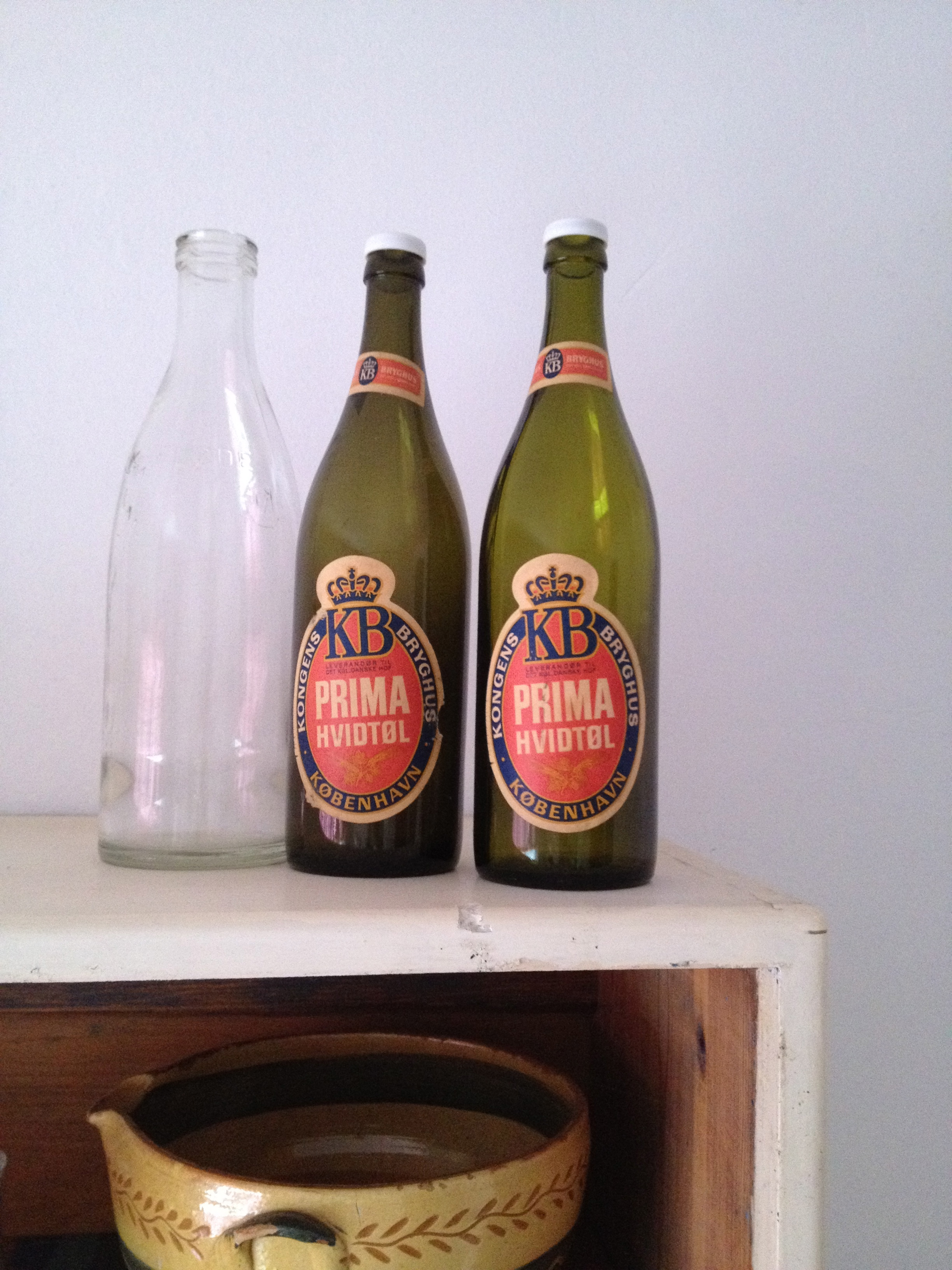 Details from the worker's home set up at Brede Værk in Building 20 "Den lange længe".